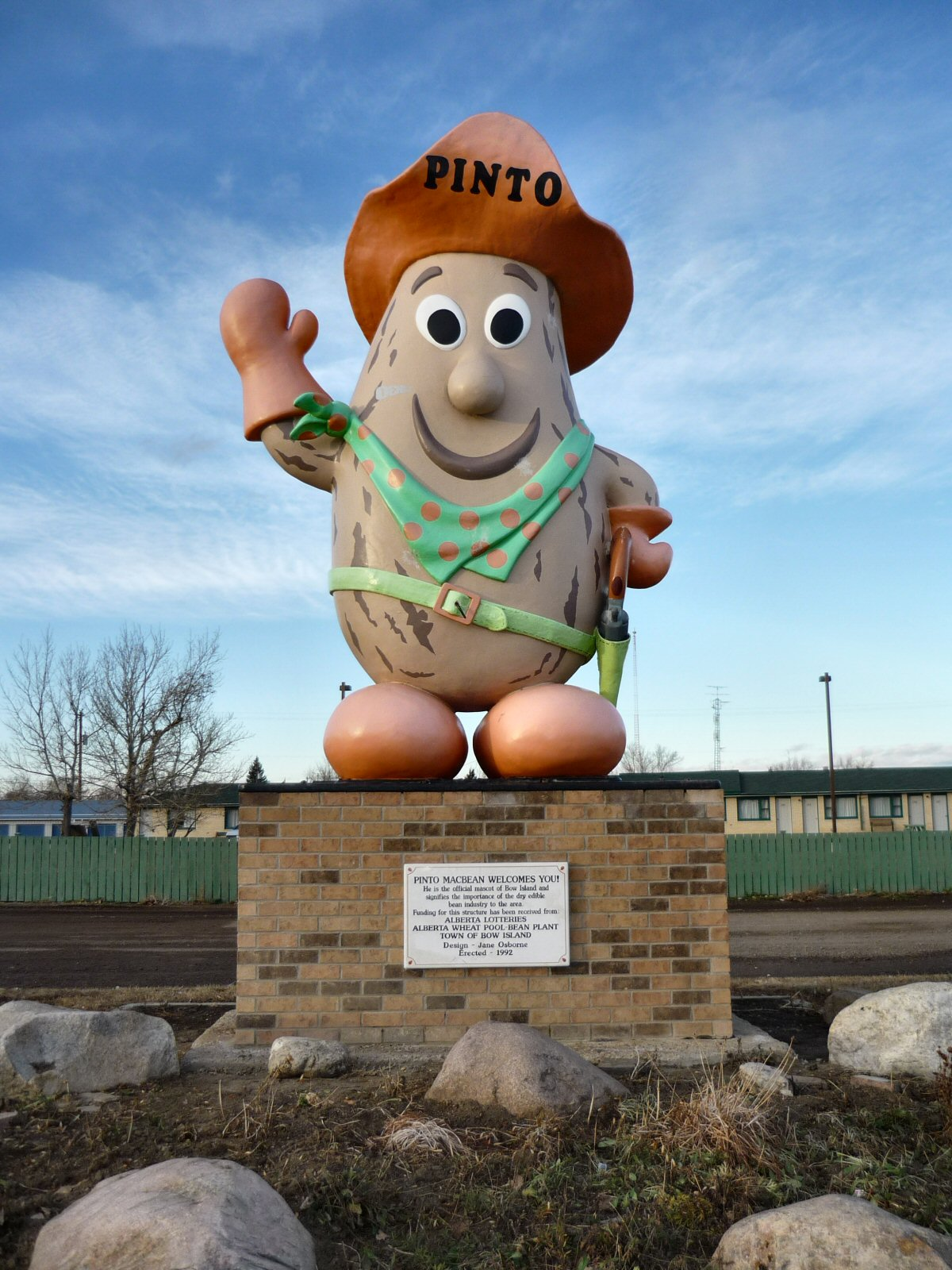 Armed but not dangerous.